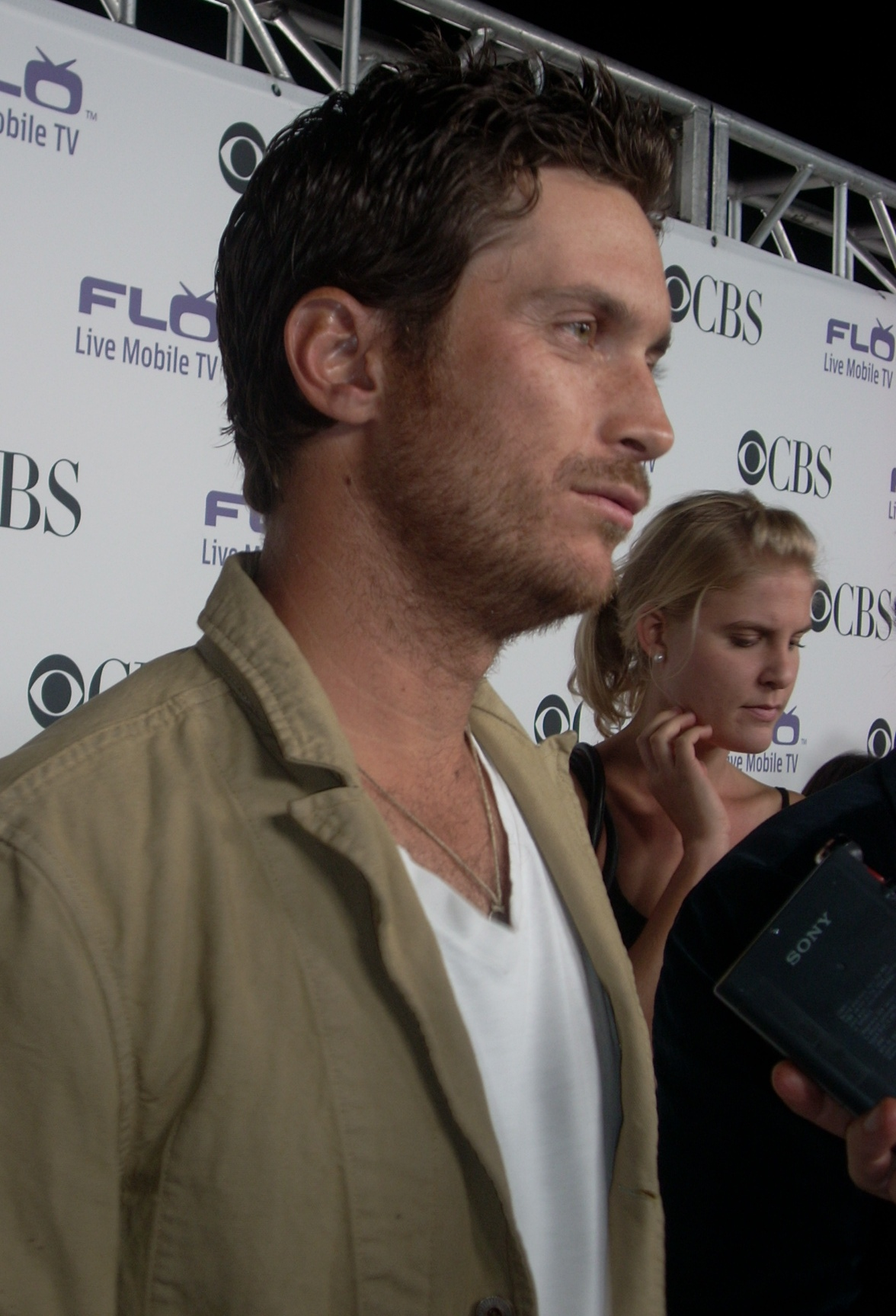 CBS Comedies Premiere Party Sponsored by Flo TV, Area on La Cienega, Los Angeles - Sept. 17, 2008